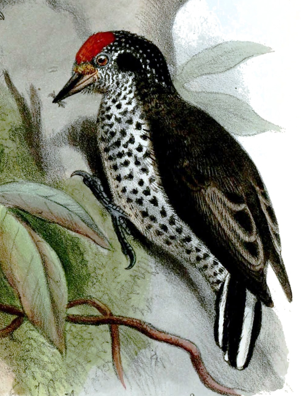 Ocellated Piculet, male